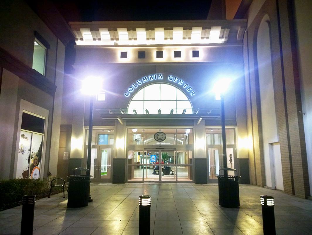 Columbia Center Mall Entrance Photo credit: Cecilia Banh